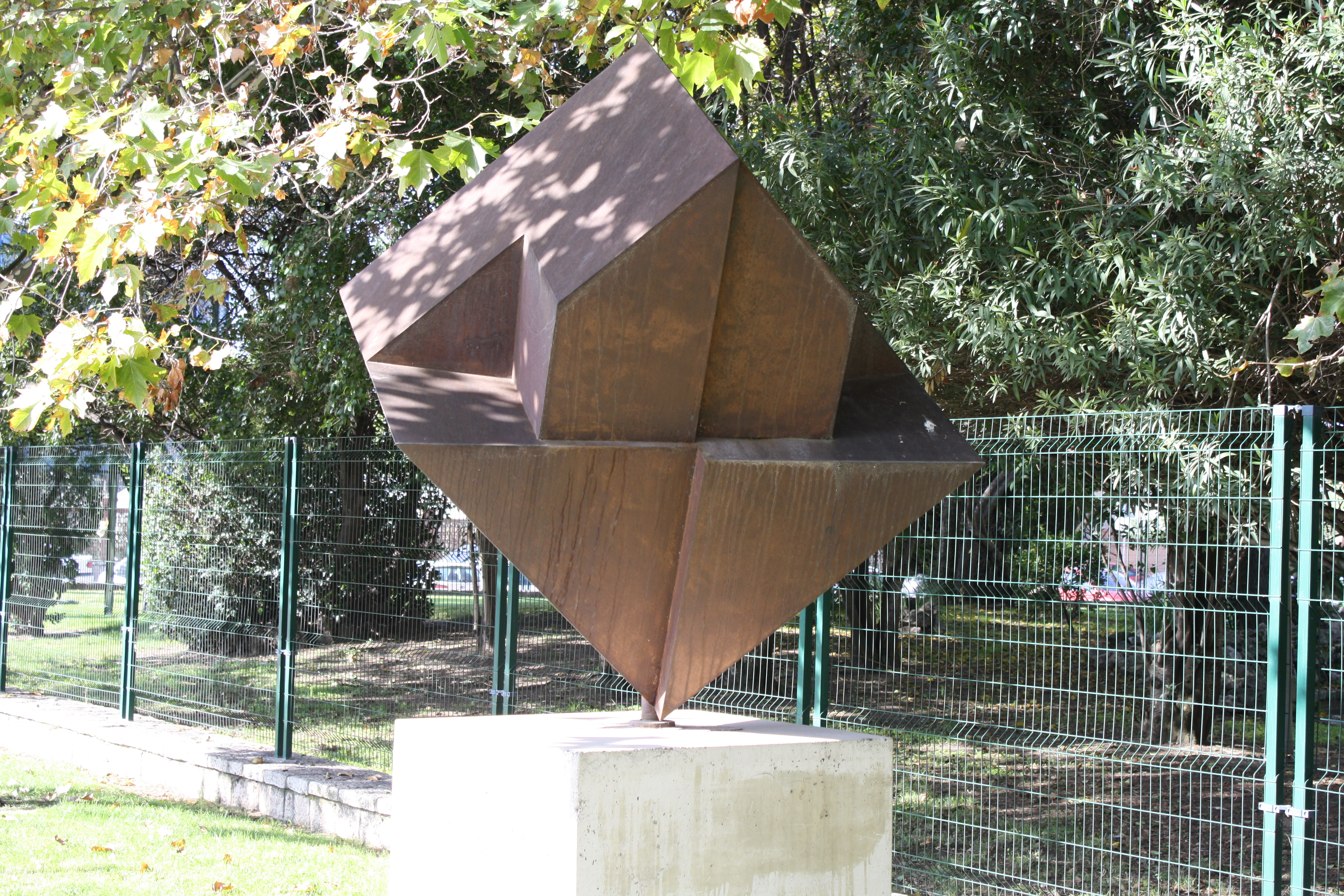 Luis Caruncho Sculpture at the Museum of Outdoor Sculpture of Alcala de Henares (Community of Madrid - Spain).